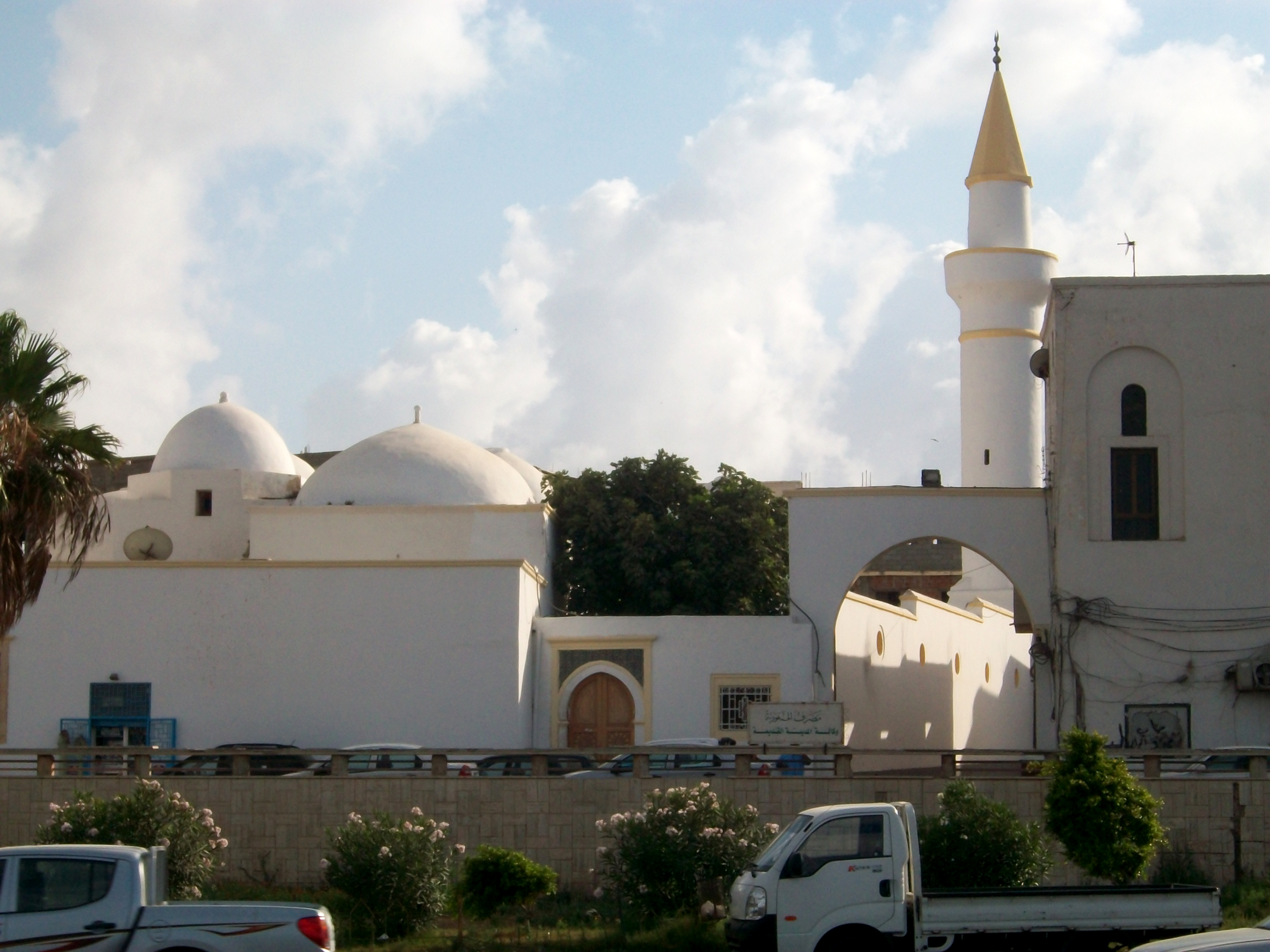 Exterior of the Darghut Mosque and Tomb in the medina of Libya's capital Tripoli.